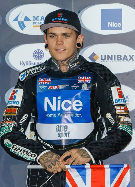 Tai Woffinden. 2nd final of Individual Speedway European Championship 2013. Togliatti, Russia